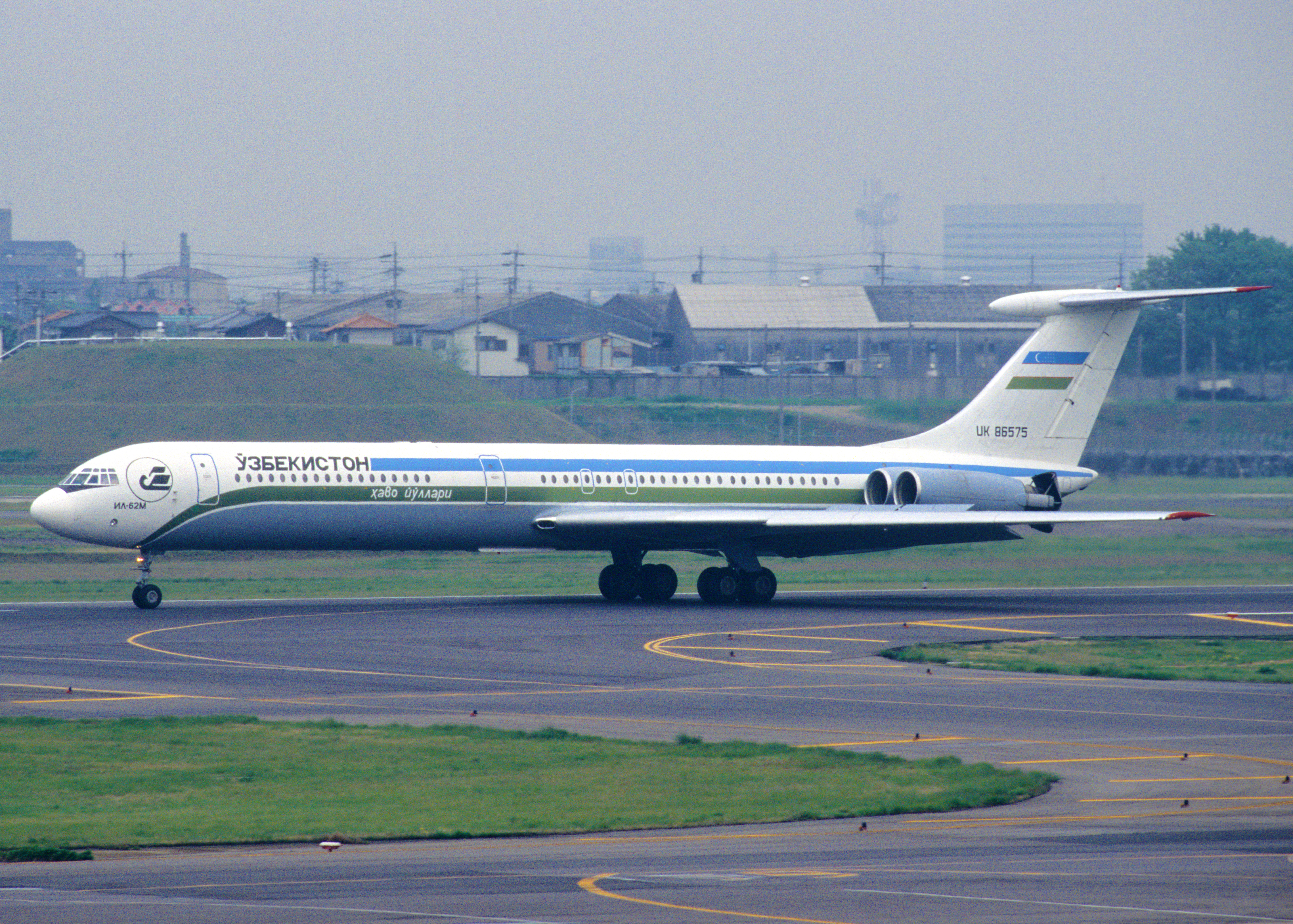 Uzbekistan Airways - Ilyushin 62M.